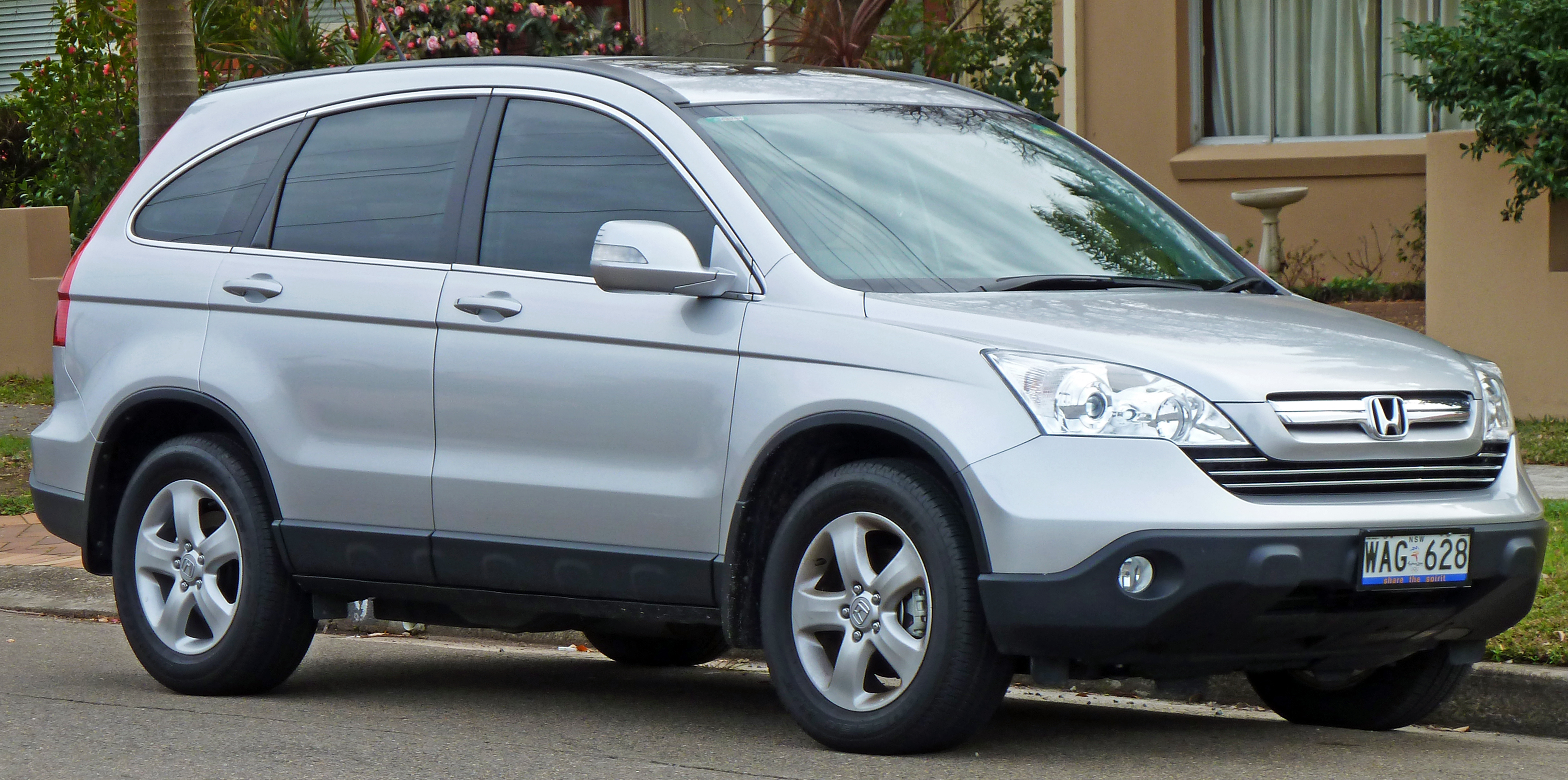 2009 Honda CR-V (RE MY2007) Sport wagon. Photographed in Woolooware, New South Wales, Australia.